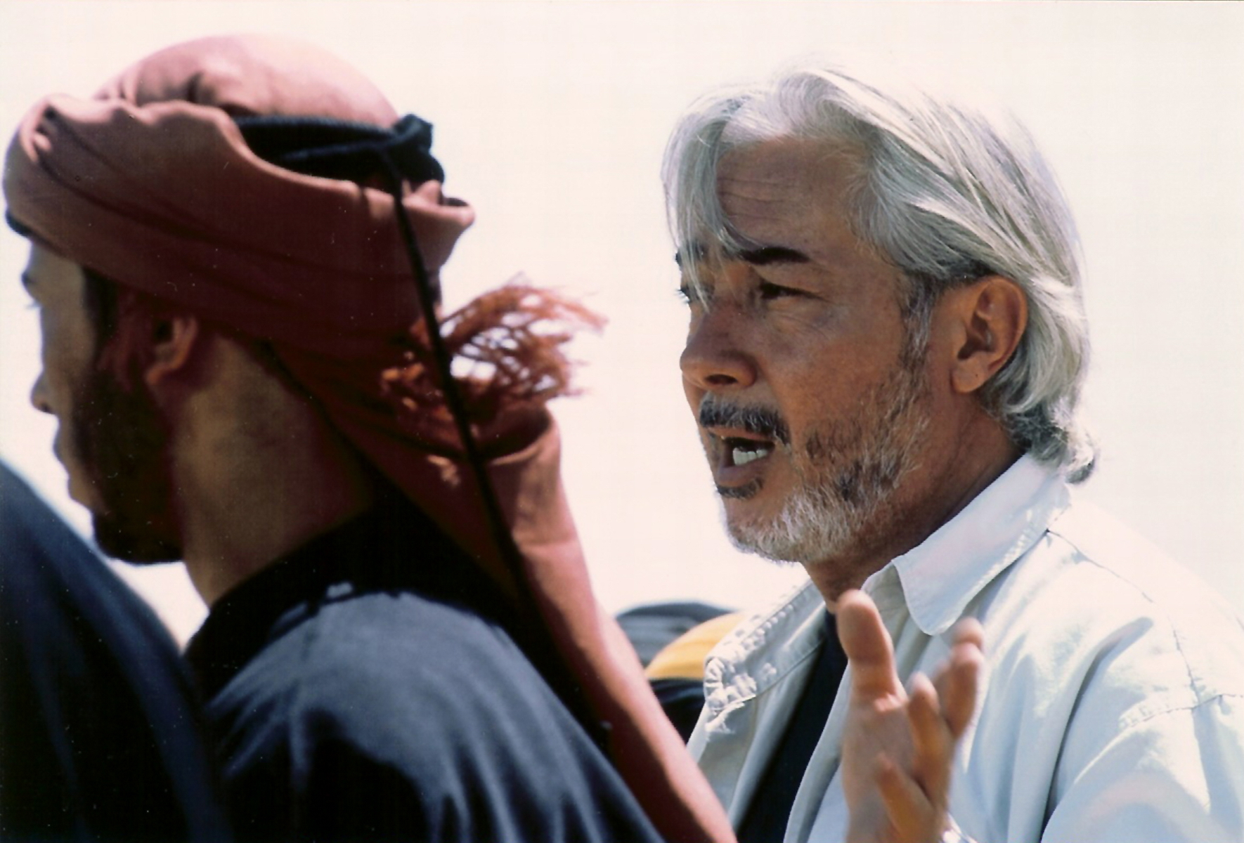 Najdat Ismail Anzour- Syrian Director of the Drama series - The Last Cavalier